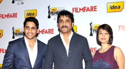 Telugu actor Nagarjuna with his son Naga Chaitanya (left) and wife Amala (right) at the 60th Filmfare Awards South Ceremony Cropped from the original